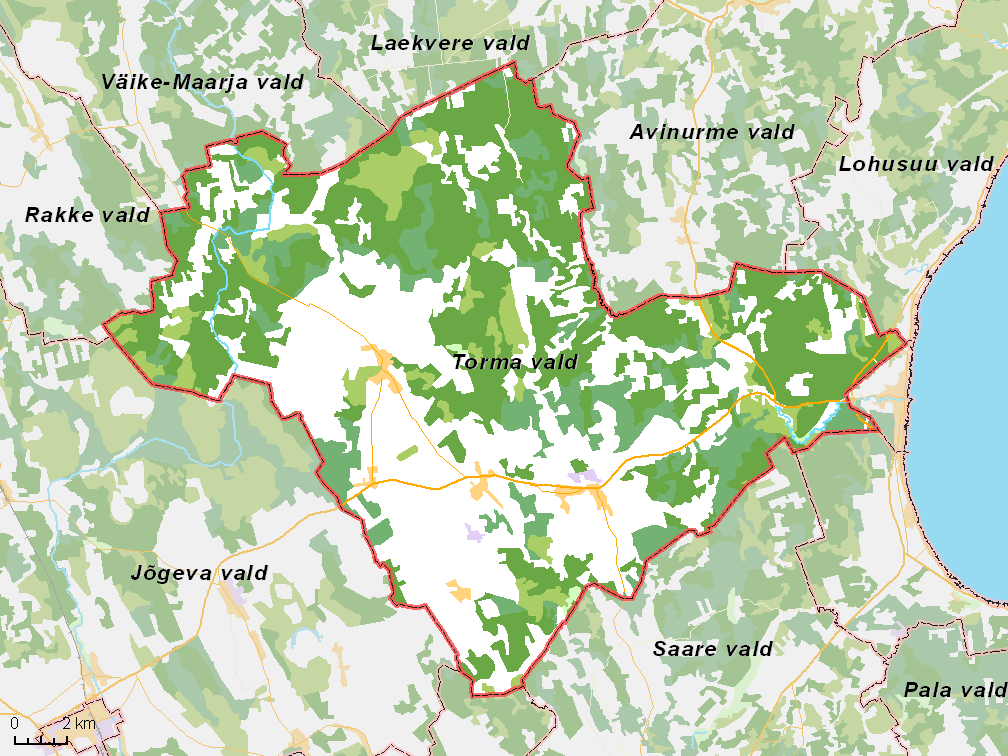 Map of municipality in Estonia